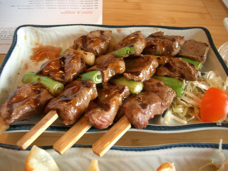 This page is from "Teriyaki Beef Skewers - Chocolate Buddha" by avlxyz is licensed under CC BY-SA 2.0